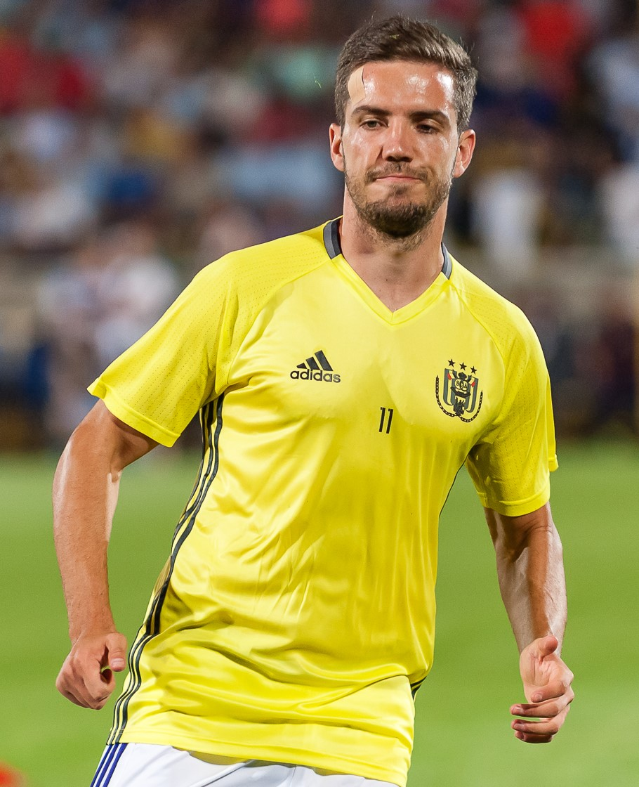 Alexandru Chipciu